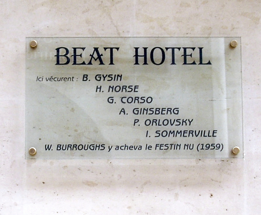 Plaque at No. 9 Rue Gît-le-Cœur, Paris 6th, in honour of the Beat Hotel's most famous occupants: William S. Burroughs, Gregory Corso, Allen Ginsberg, Brion Gysin, Harold Norse, Peter Orlovsky, Ian Sommerville. It was here that Burroughs completed the text of Naked Lunch in 1959. The Beat Hotel became the Relais Hôtel Vieux Paris in 1980.